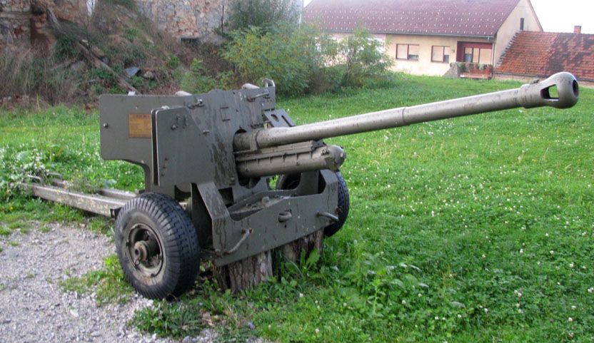 Light antiarmor cannon M-1 Mk2 (Turanj, Karlovac, Croatia)